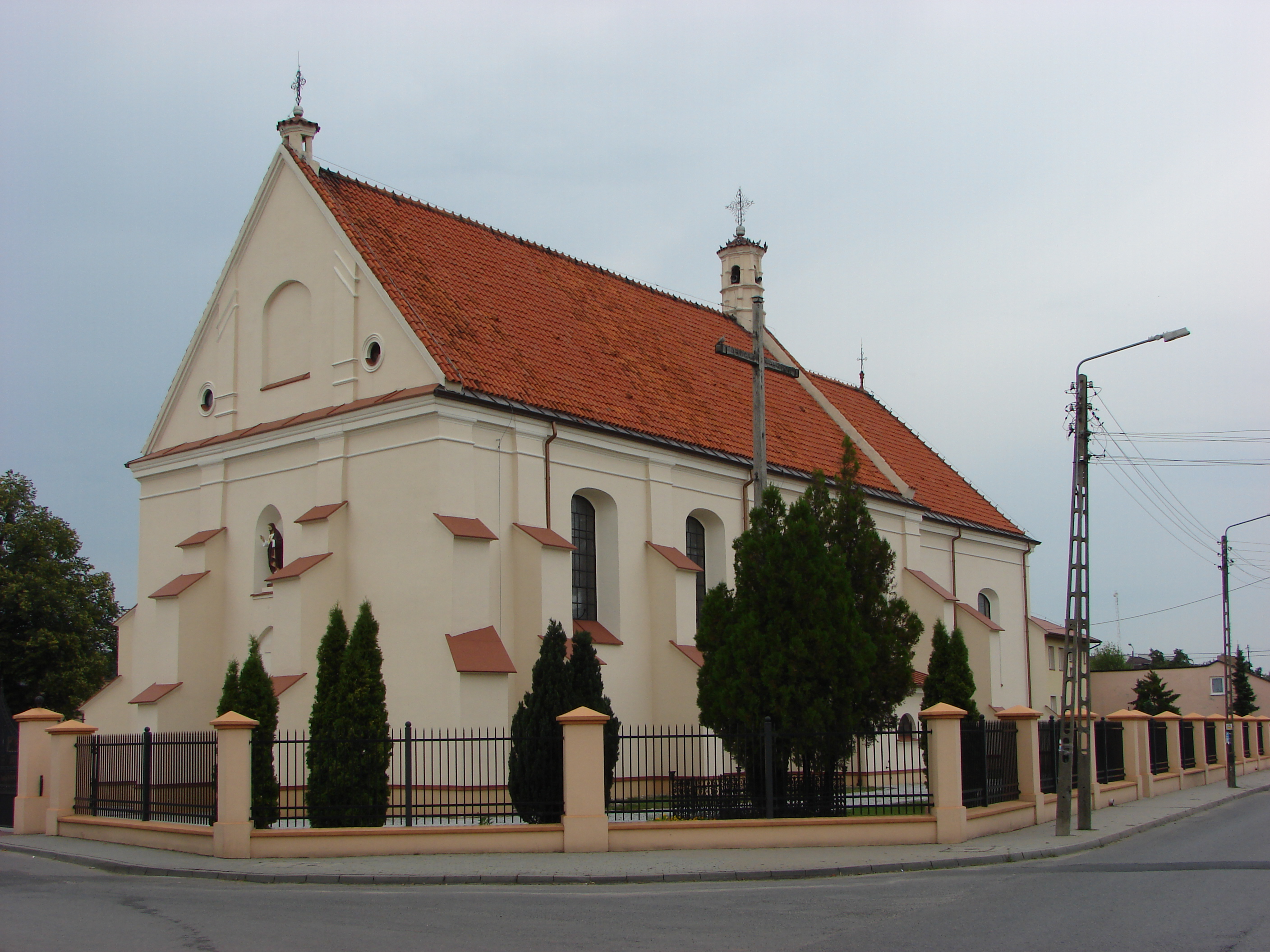 Piątek, Łęczyca County. Parish church of The Holy Trinity, XV century.